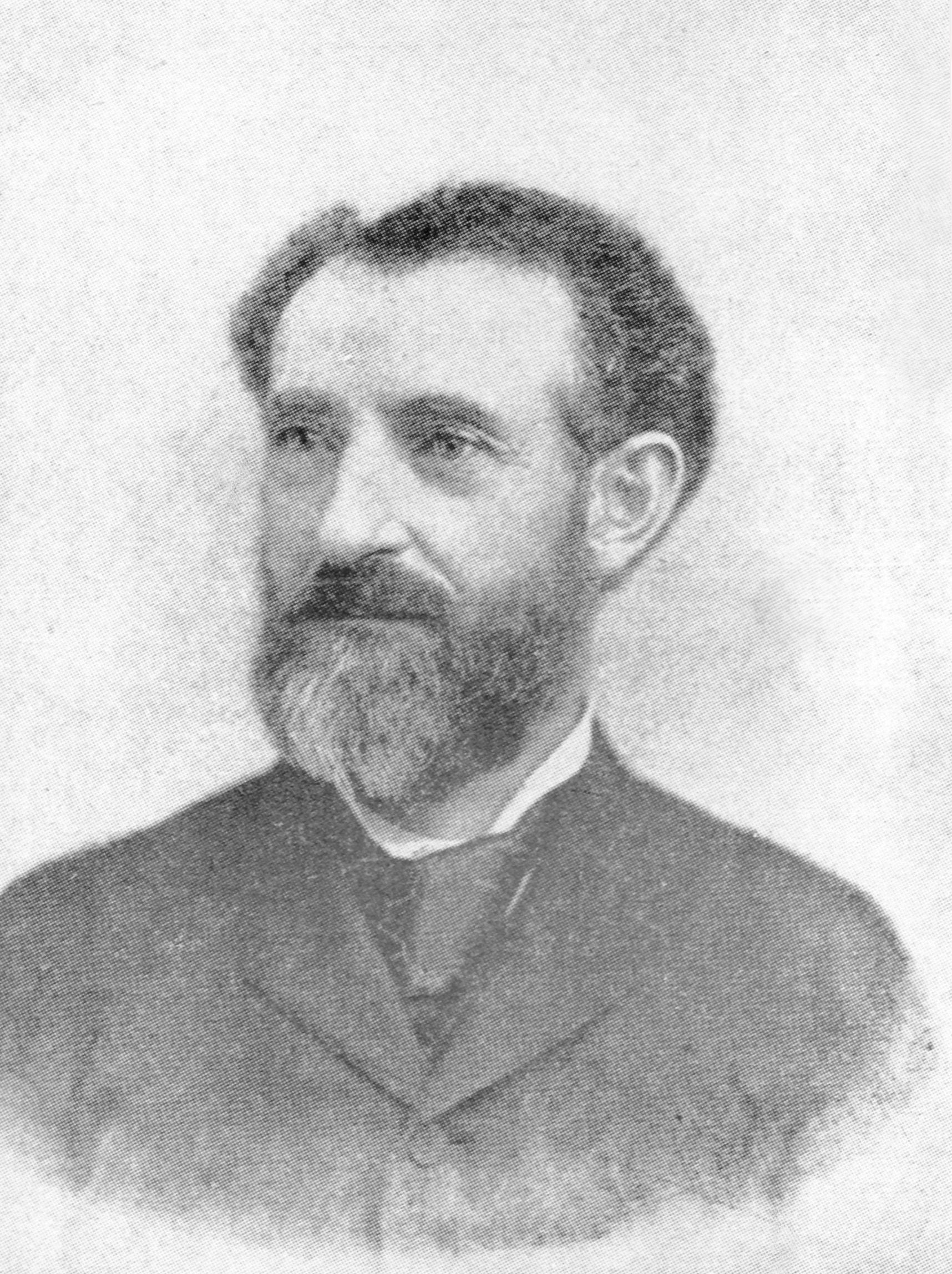 Formal portrait of Robert Deniston Hume, who operated salmon canneries and hatcheries on the lower Rogue River in the U.S. state of Oregon between 1877 and 1908.